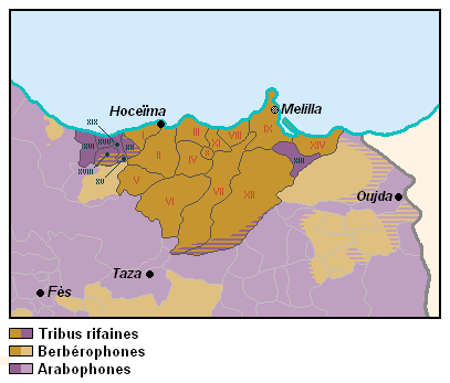 Ethno-linguistic map of the Rif, cropped from File:Nord du Maroc, carte ethno-linguistique.PNG -Own made map-I. Bekoya ; II. Aït Waryaghel ; III. Temsaman ; IV. Aït Tuzin ; V. Aït Ammart ; VI. Gueznaya ; VII. Metalsa ; VIII. Aït Saïd ; IX. Qelâya ; X. Tafersit ; XI. Aït Oulichek ; XII. Aït Bouyahyi ; XIII. Settout ; XIV. Kebdana ; XV. Targuist ; XVI. Metioua ; XVII. Mestasa ; XVIII. Aït Gmil ; XIX. Aït Boufrah ; XX. Aït Itteft